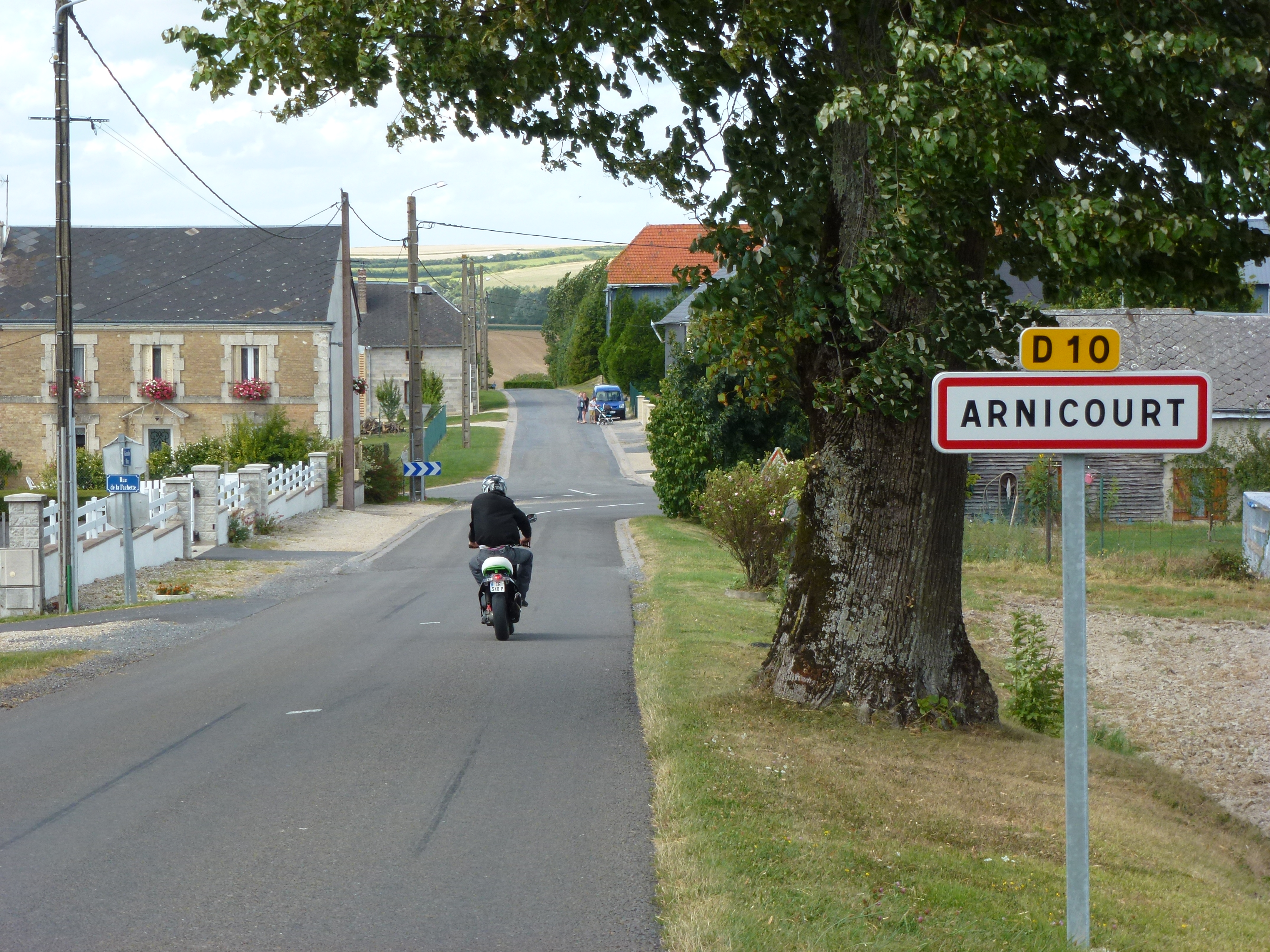 Arnicourt (Ardennes) city limit sign